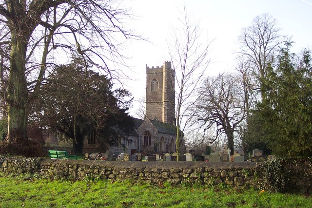 St Tewdric's parish church, Mathern, Monmouthshire, seen from the northeast